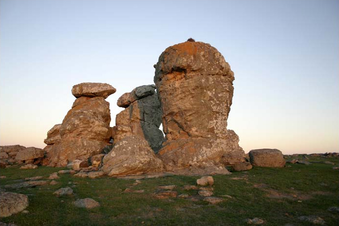 Unknown language: Piedra Itá Pucú